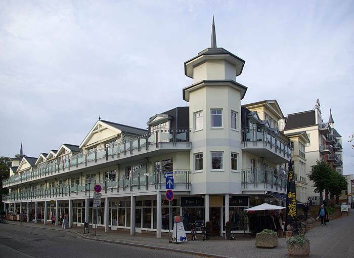 Coastal resort of Zinnowitz on the island of Usedom